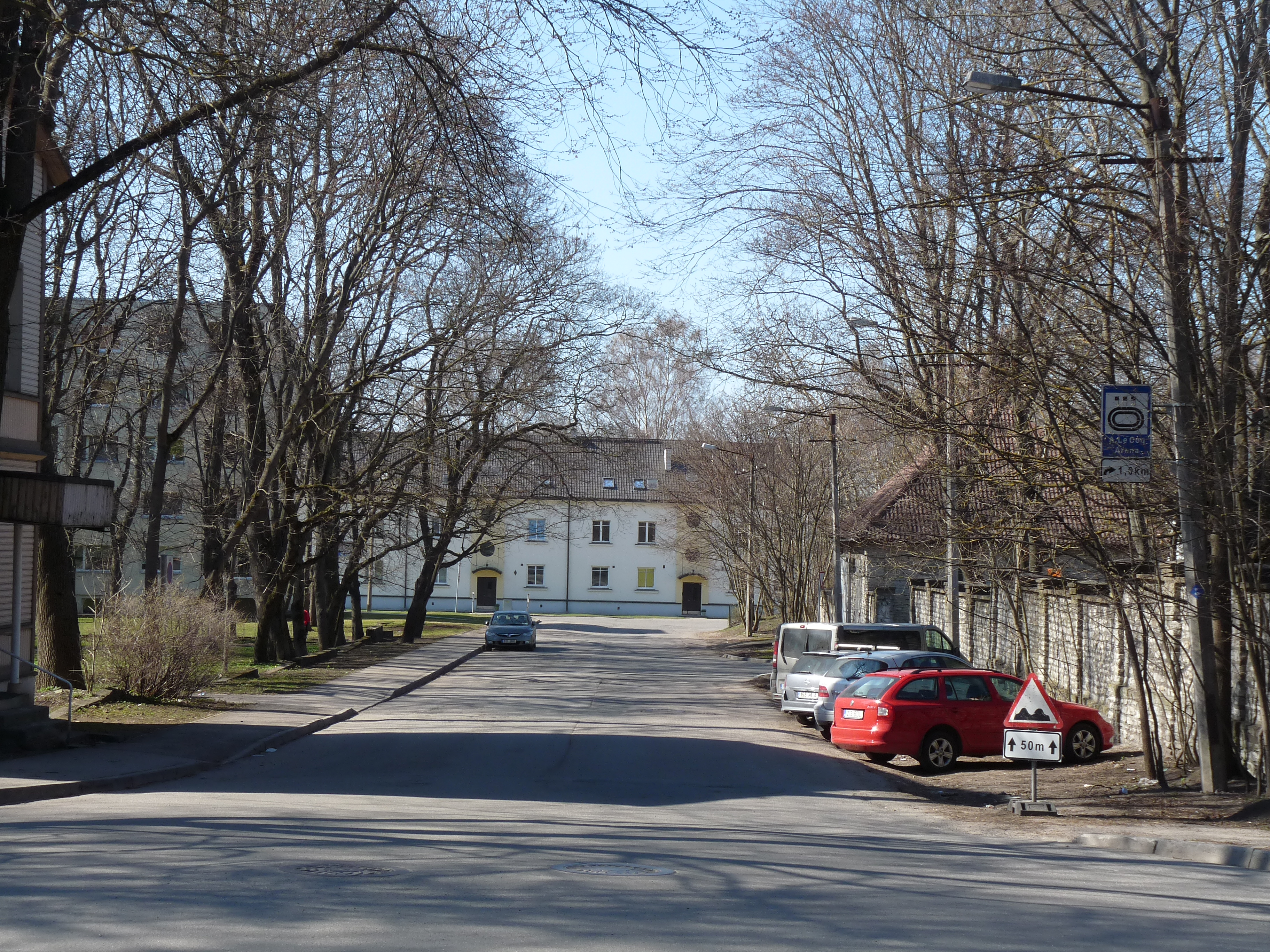 Asula põik in Tallinn, Estonia